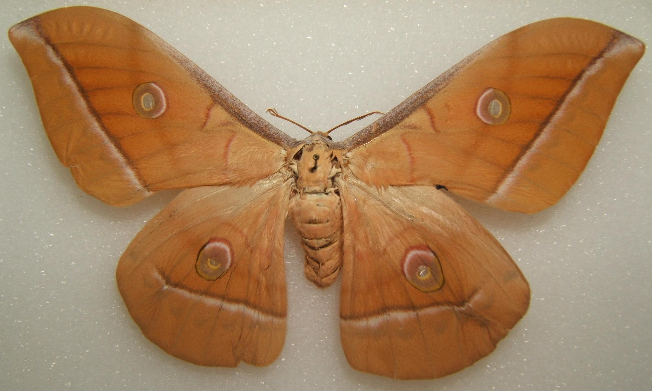 Antheraea pernyi adult female taken by Shawn Hanrahan at the Texas A&M University Insect Collection in College Station, Texas.